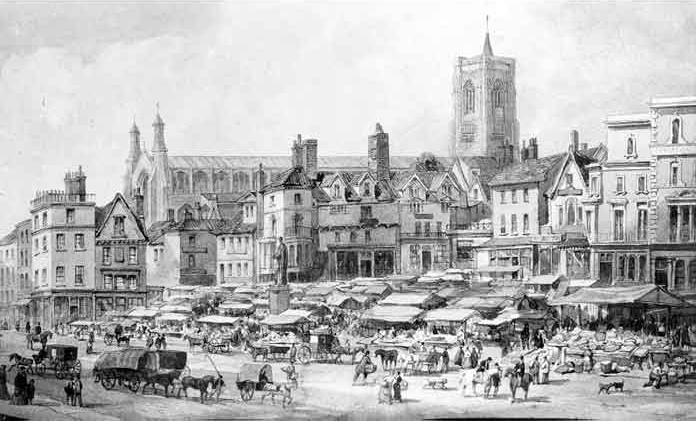 Norwich Market Place, c. 1855, David Hodgson (1798-1864)